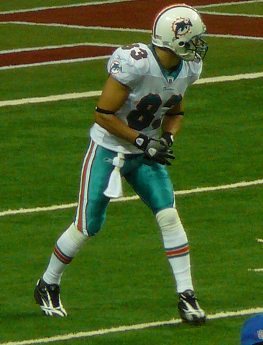 If used somewhere other than Wikipedia, Nelson, by name.